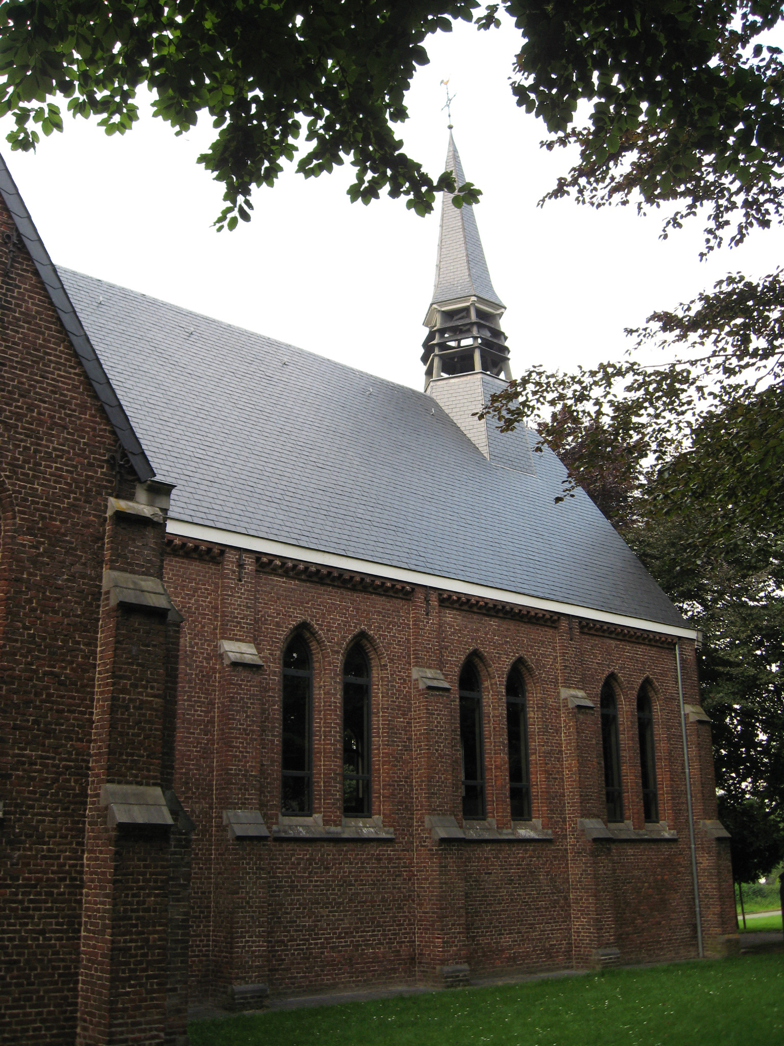 Former chapel of Saint Rumbold in Klein-Vorsen, Montenaken, Limburg, Belgium. Rebuild in 2005 into a house of culture.